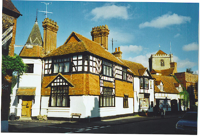 Part of the centre of Dorchester-on-Thames, with the tower of the Abbey church in the background.